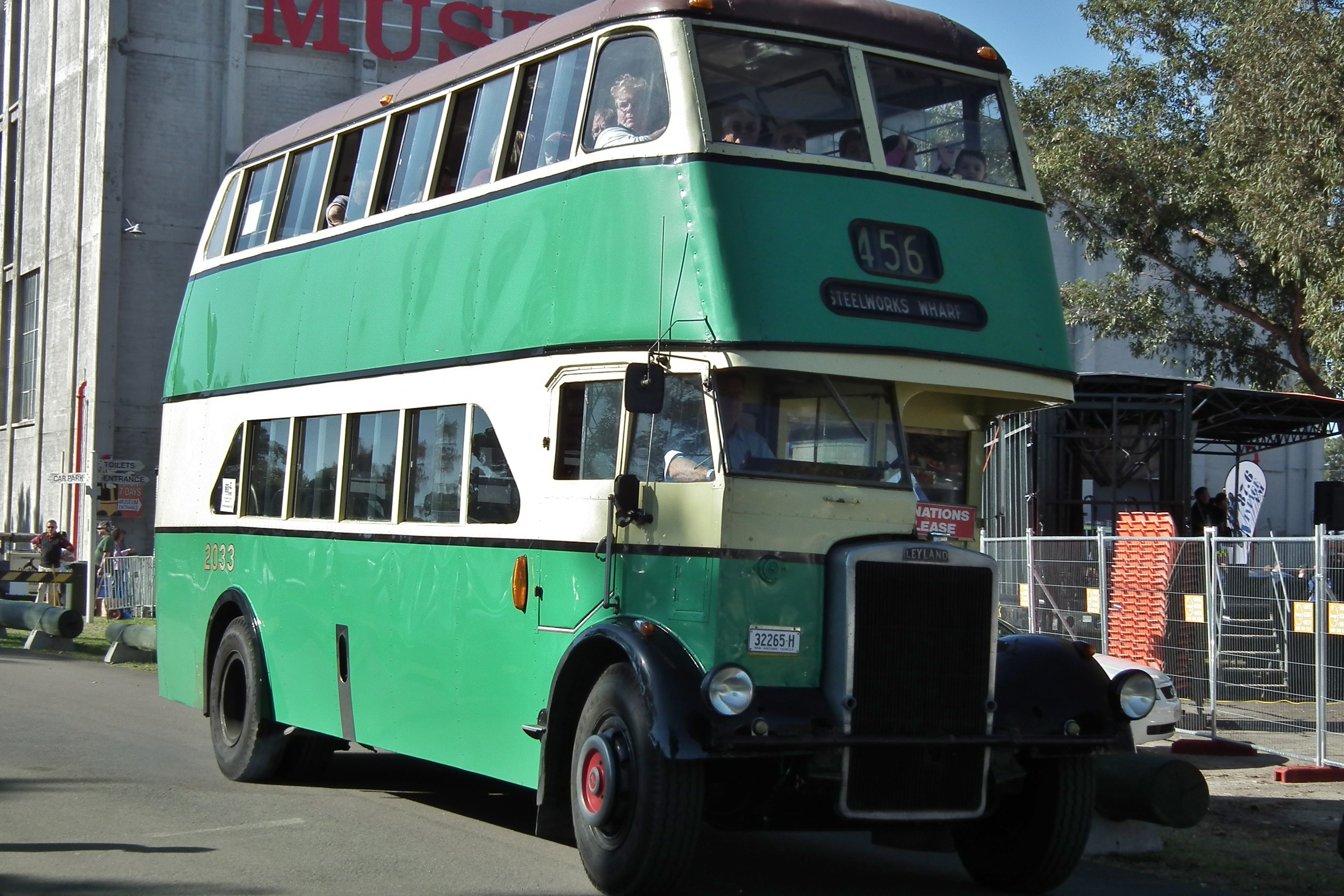 1948 Leyland Titan OPD2/1 double decker bus. Taken at the 2011 Sydney Antique & Classic Truck Show, held at the Museum of Fire in Penrith, NSW.